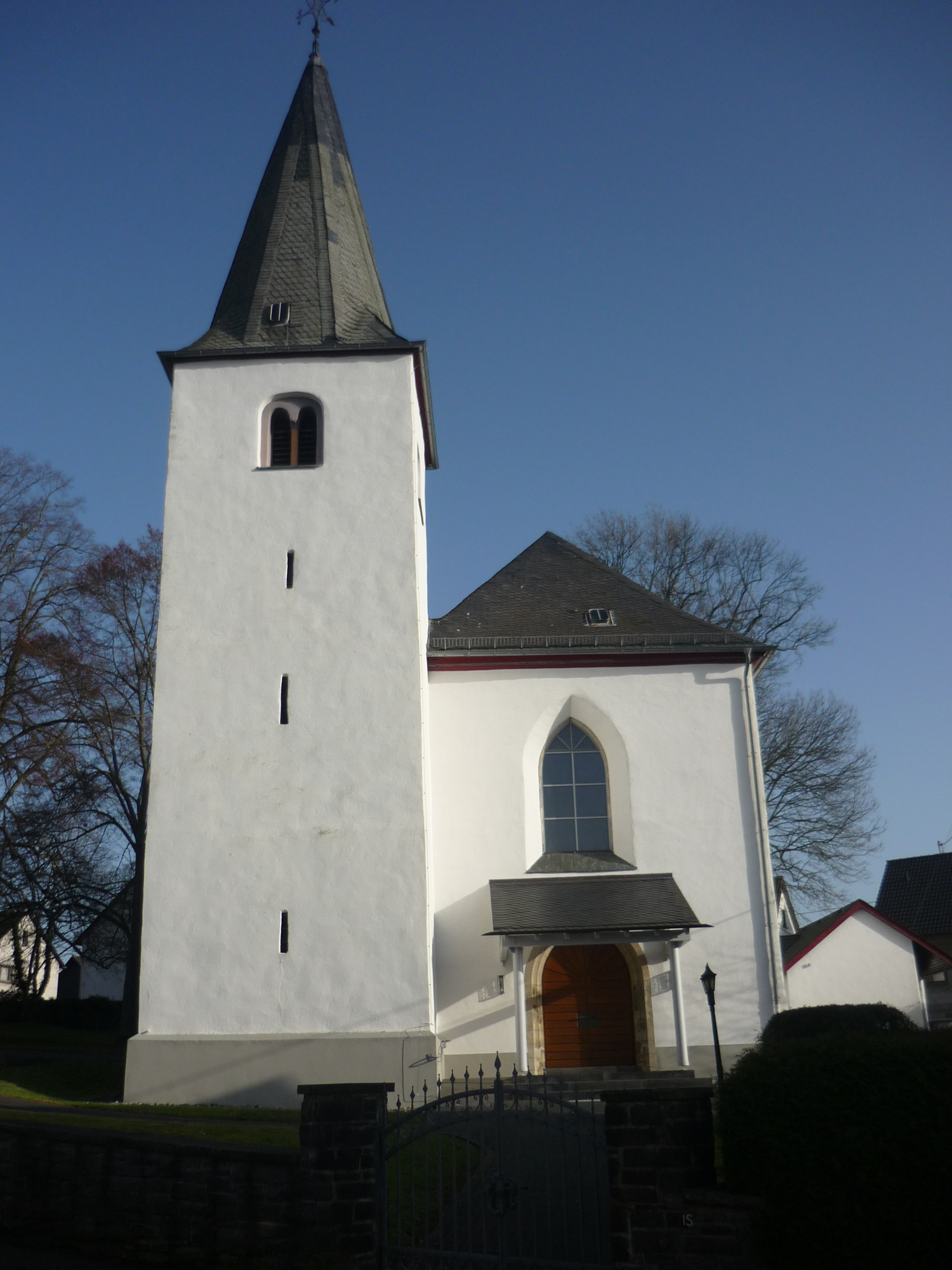 Church in Hilgenroth Westerwald